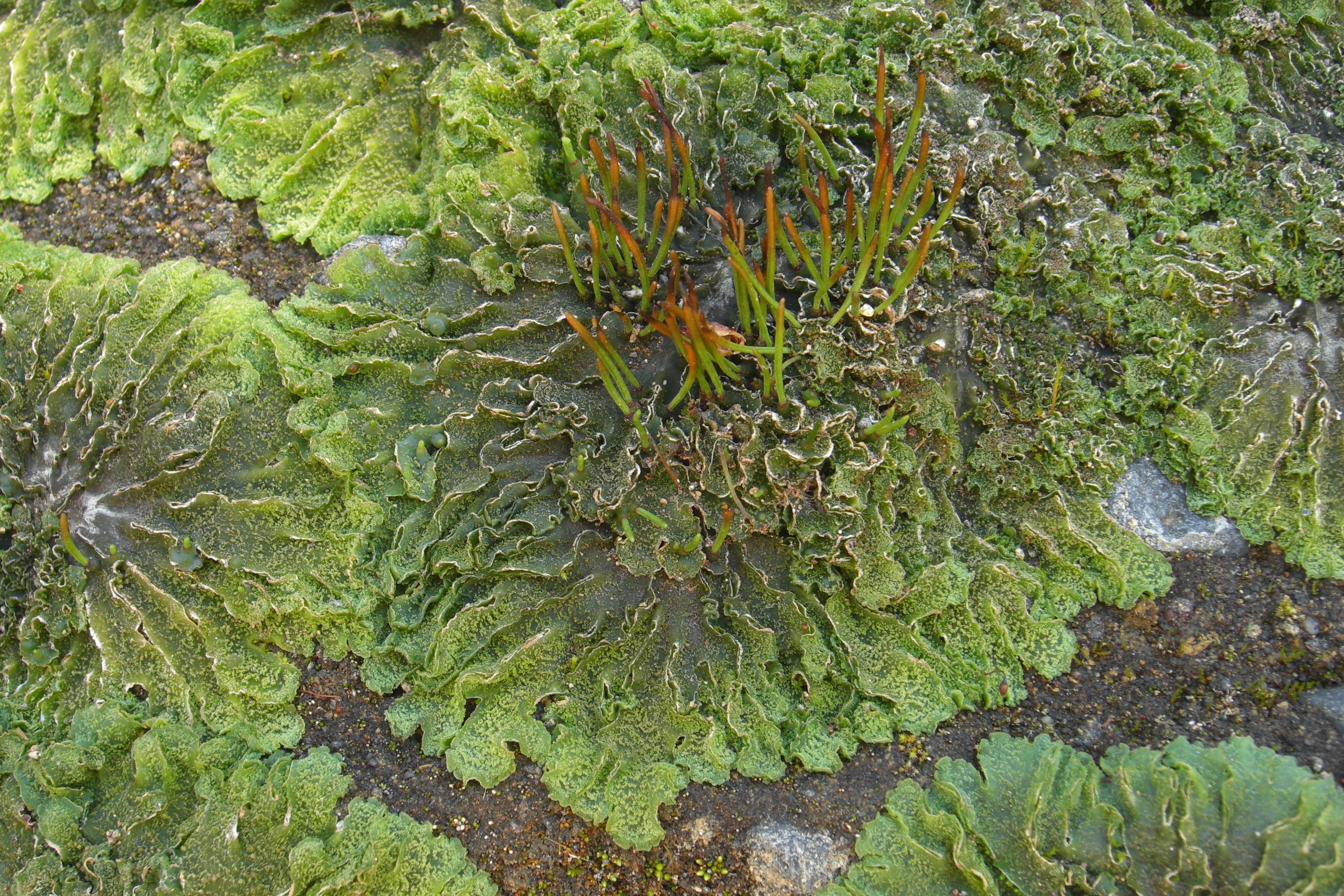 Found on a road cut above the "mirador" just south of Las Cascadas by Vn. Osorno.